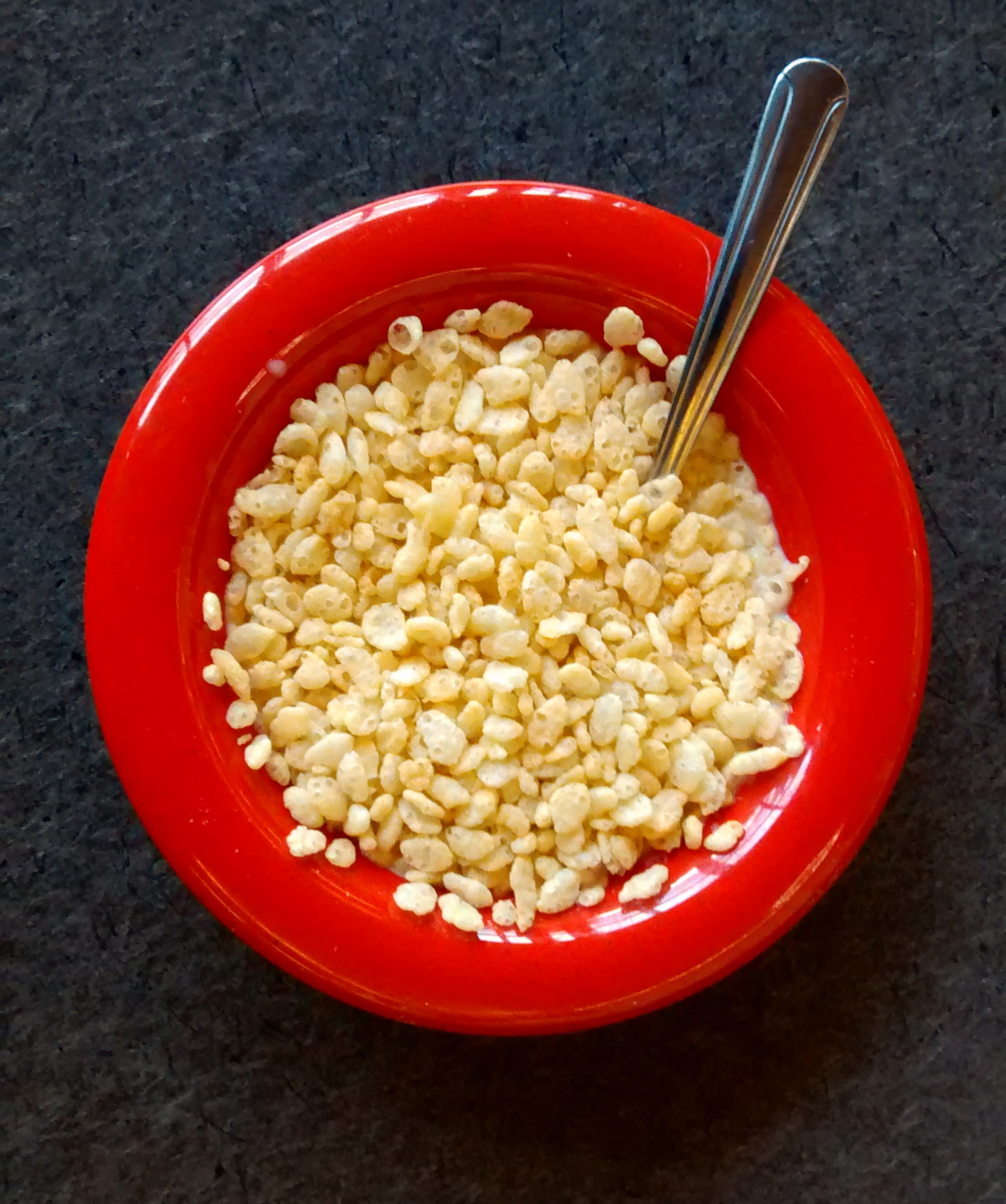 A bowl of Rice Krispies cereal with Silk soy milk.